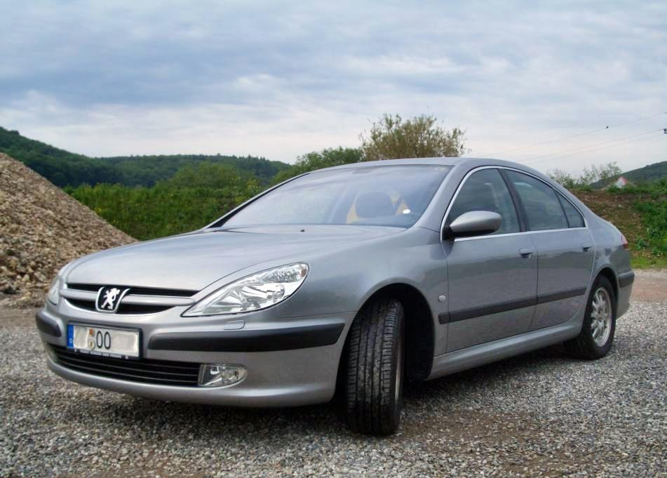 Pre-facelift Peugeot 607